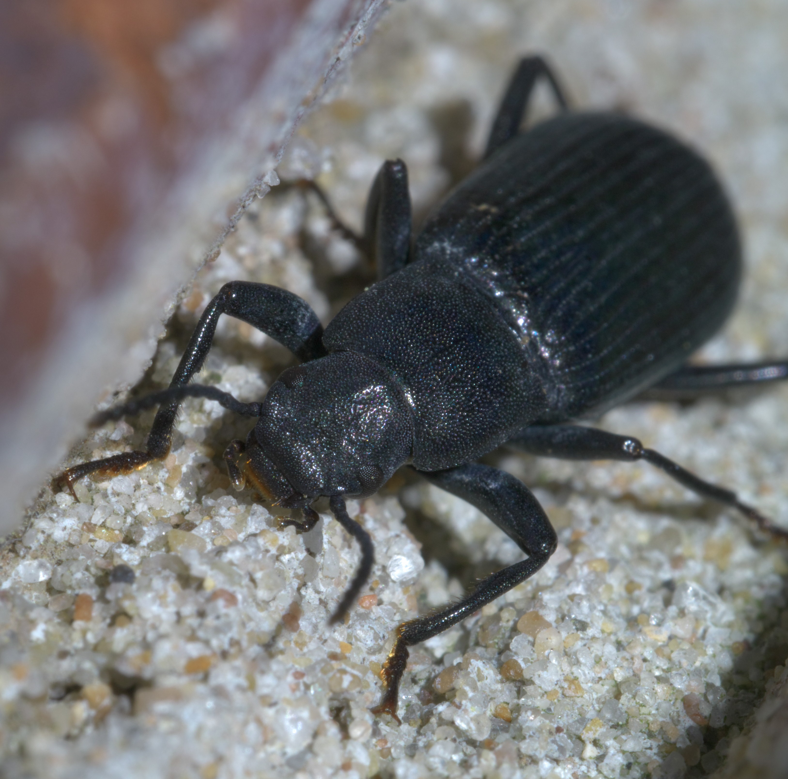 Xylopinus saperdoides, Family: Darkling Beetles, ID Confidence: 98